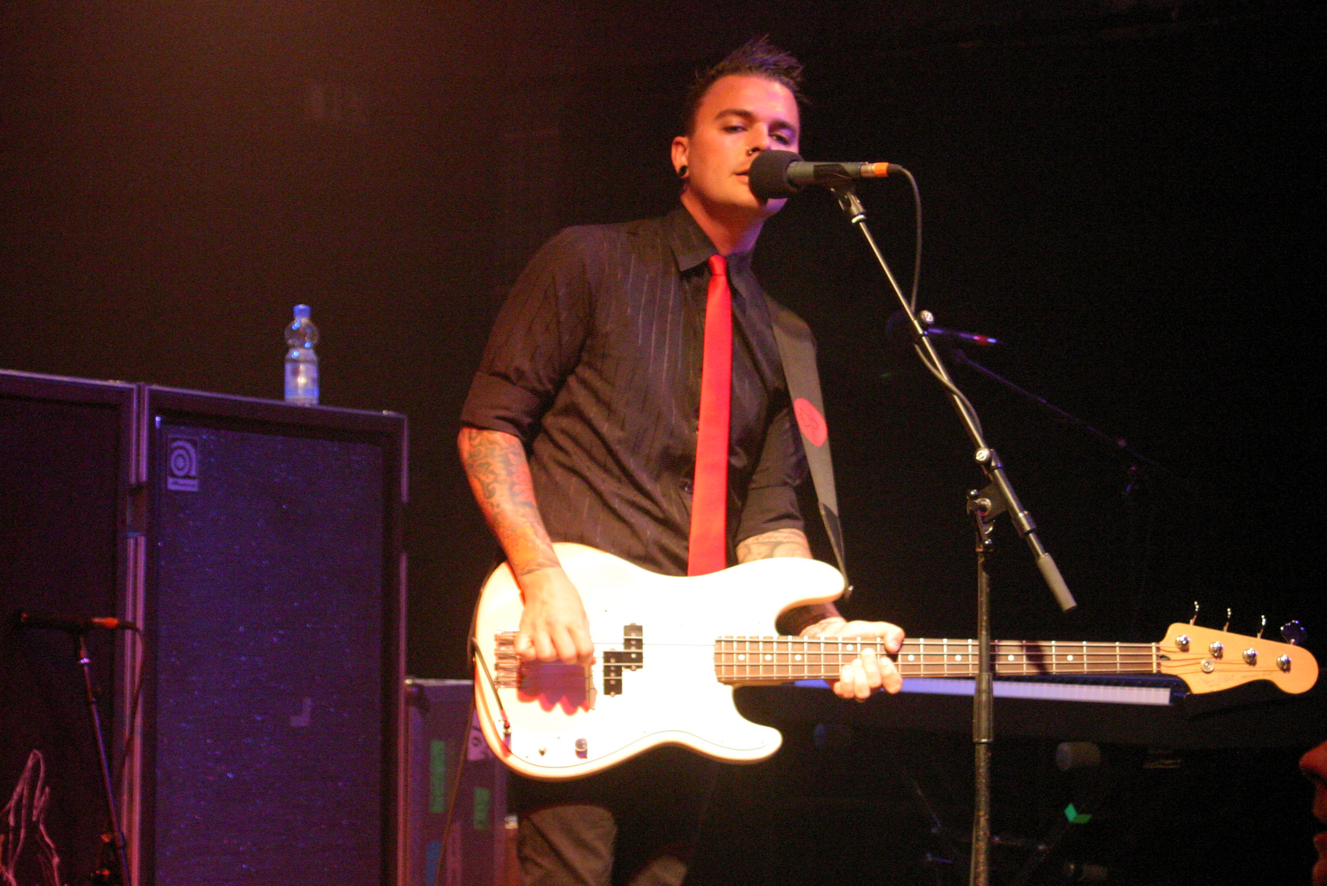 Glen Hodgson of the Parlotones at a concert in Cologne (Germany), 2010-10-26